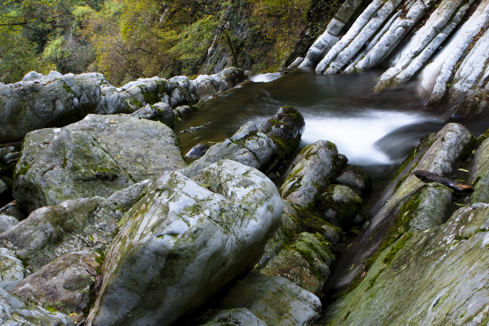 Breggia River, Ticino, Switzerland